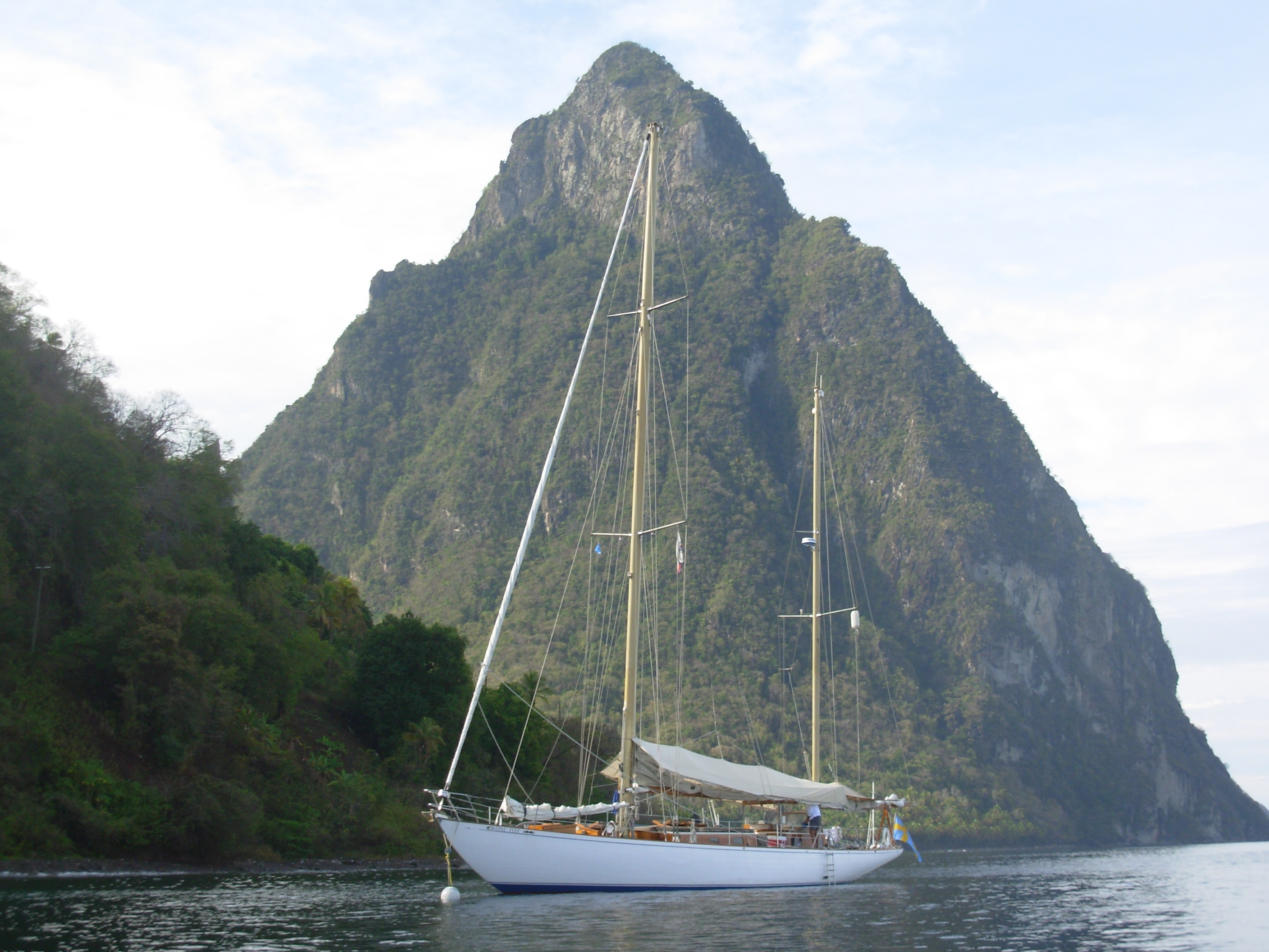 Lone Fox at anchor, St Lucia, 2007